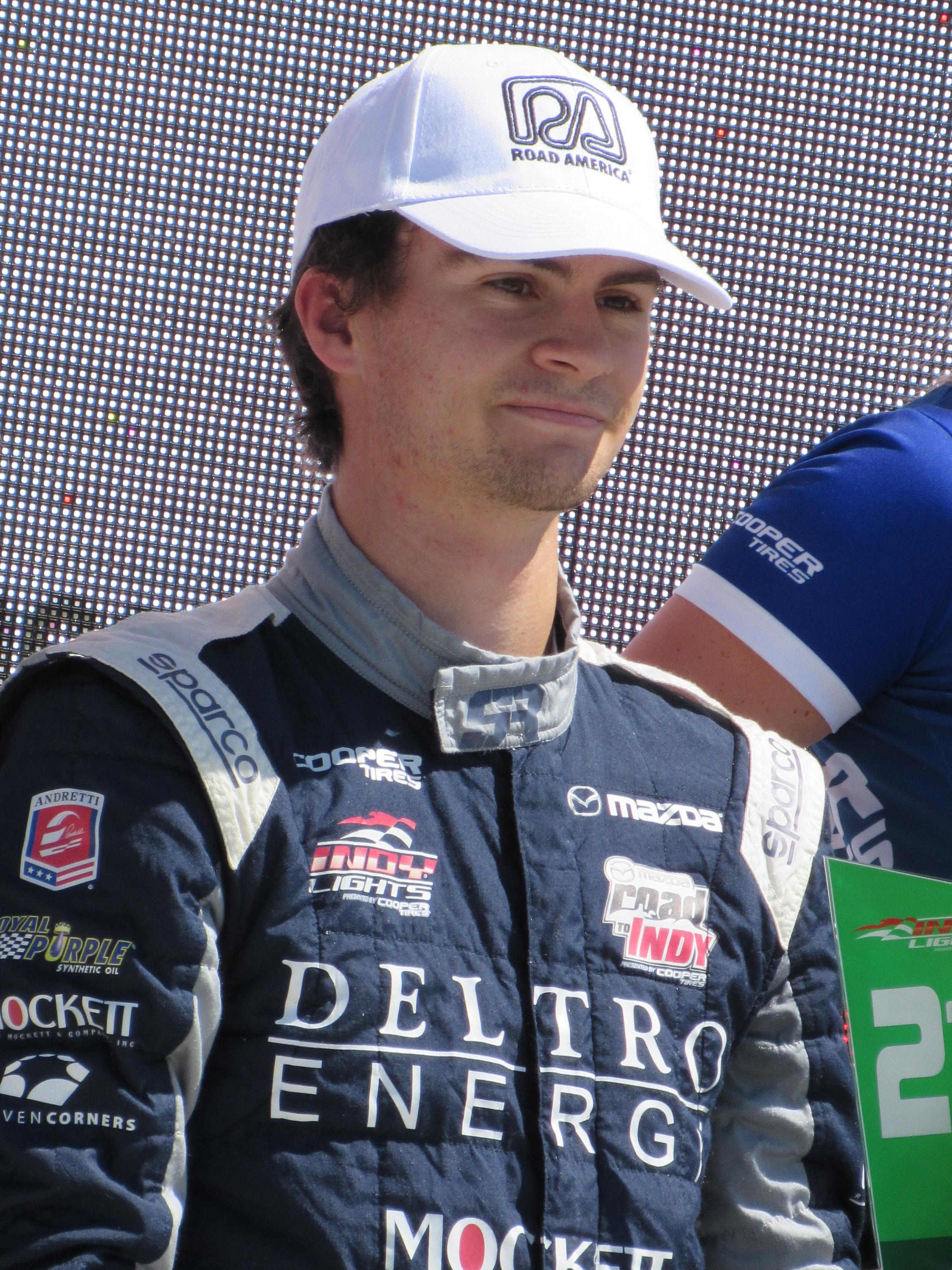 Colton Herta in the Victory Lane area at Road America in 2018 during the podium presentation for the preceding Indy Lights race